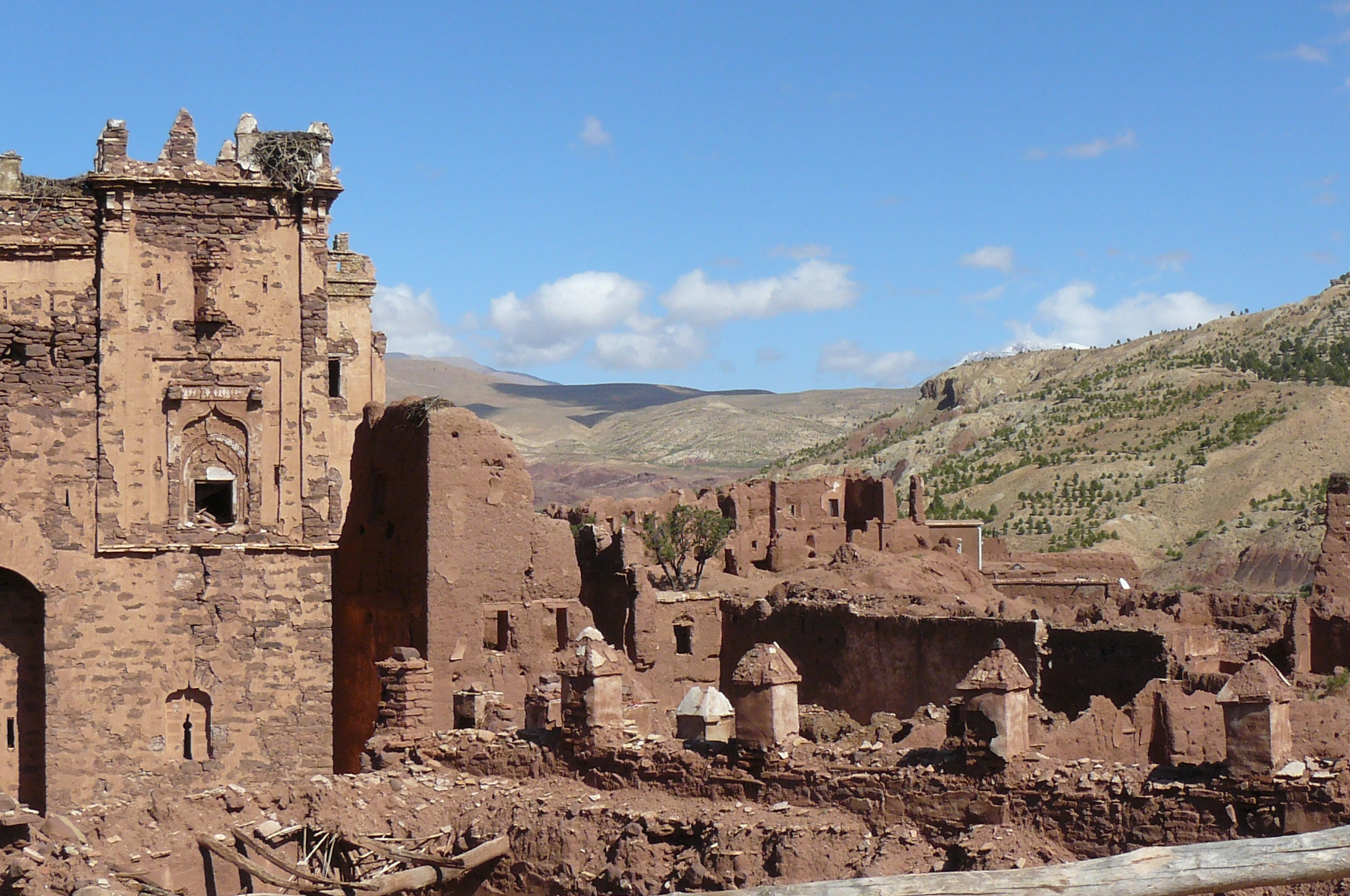 Kasbah of Telouet, Morocco. We stopped here on the journey between Marrakech and Ouarzazate.